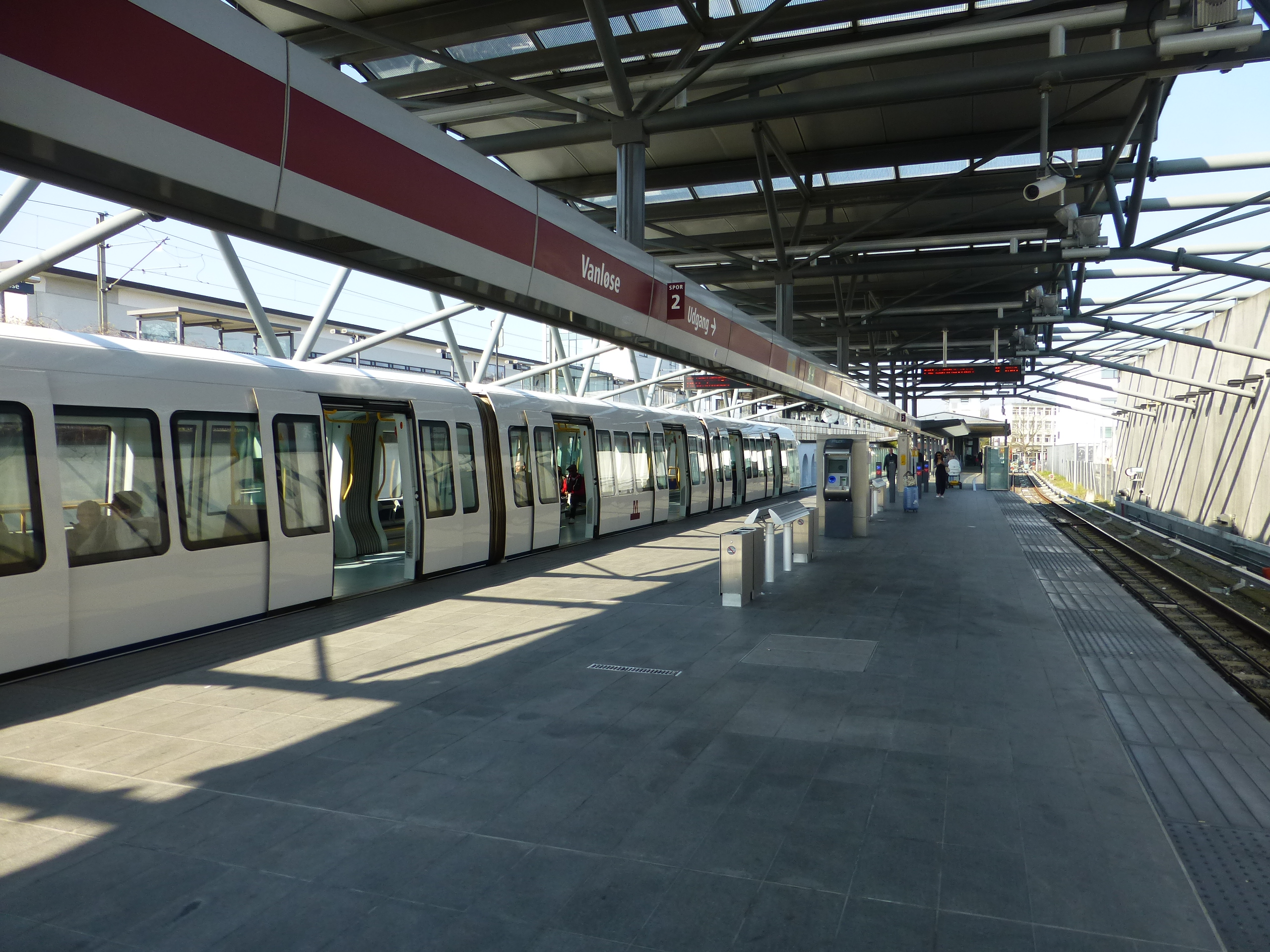 Vanløse Station is a S-train and metro station in Copenhagen.